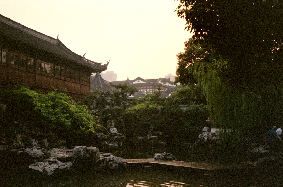 The Yuyuan Garden in Shanghai